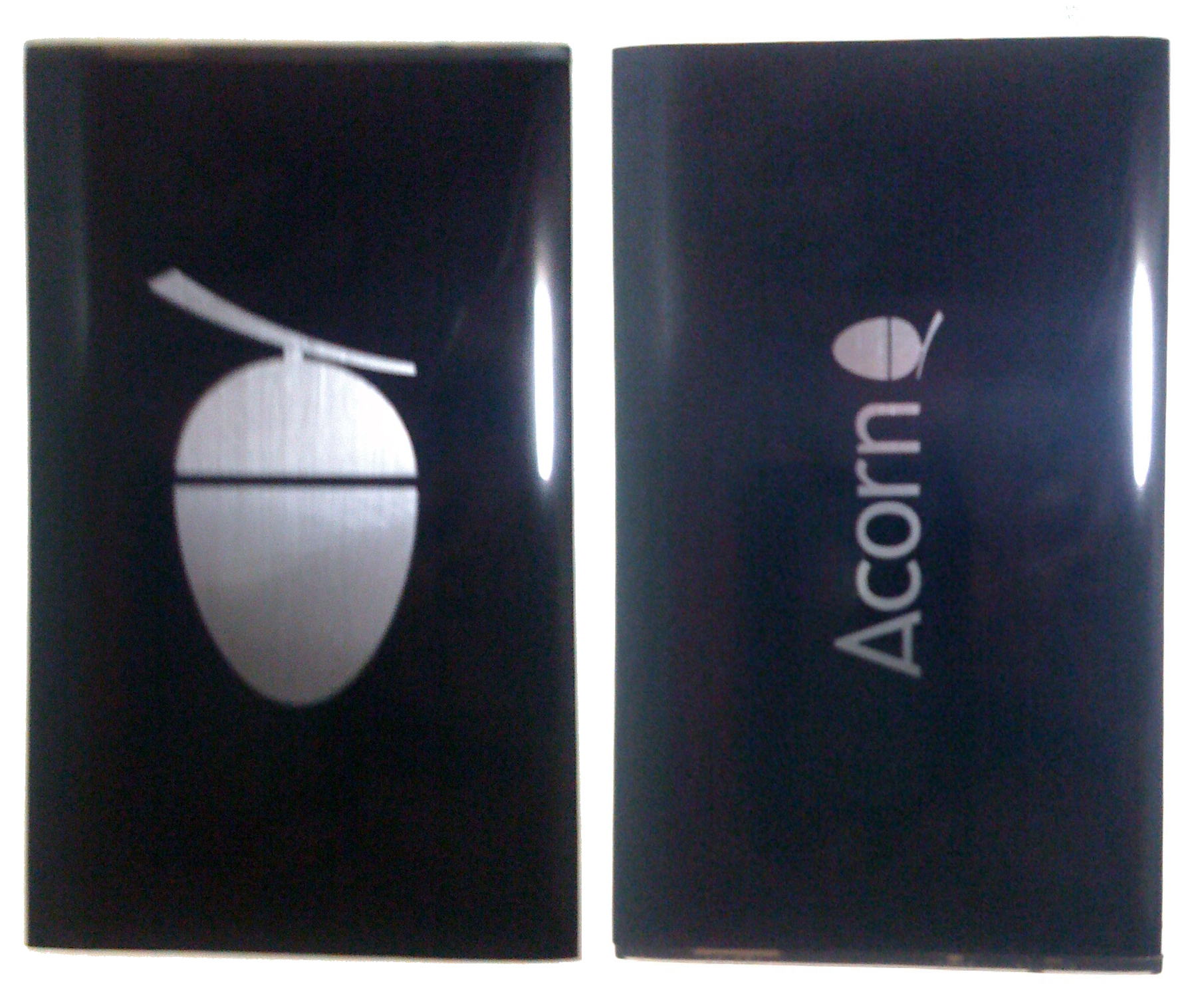 My Acorn dataPOD, Photo taken on a macbook screen via a iPhone 3G.